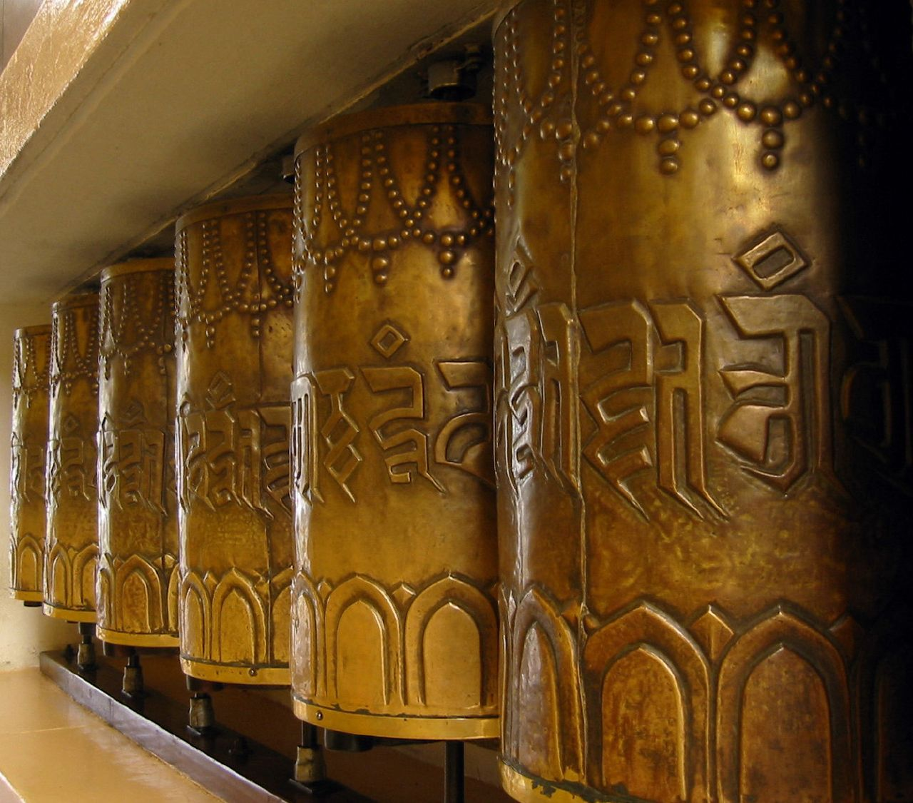 Brass prayer wheels surrounding the Tsuglagkhang Temple in McLeod Ganj. These wheels, too, are inscribed with the "Om Mani Padme Hum" mantra.